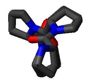 Top view of the poly-Pro II helix, made with MOLMOL.